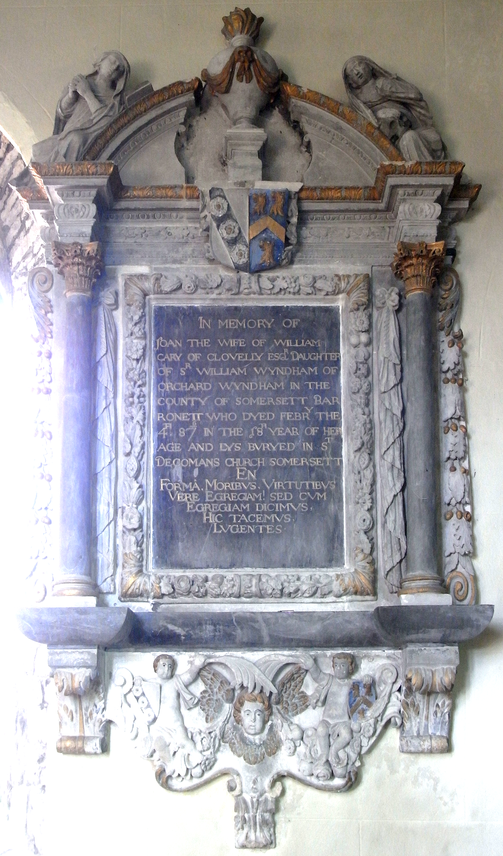 Mural monument to Joan Wyndham (1669-1687), Clovelly Church, Devon. She was the first wife of William Cary (c.1661-1710), lord of the manor of Clovelly, twice Member of Parliament for Okehampton in Devon 1685-1687 and 1689-1695 and also for Launceston in Cornwall 1695-1710 and was the daughter of Sir William Wyndham, 1st Baronet (c.1632-1683) of Orchard Wyndham, Somerset, Member of Parliament for Somerset 1656-1658 and for Taunton 1660-1679. Above are shown the arms of Cary (Argent, on a bend sable three roses of the field) impaling Wyndham (Azure, a chevron between three lion's heads erased or), which arms on escutcheons are also held by a pair of putti below. Inscribed as follows: "In memory of Joan the wife of William Cary of Clovelly Esqr daughter of Sr William Wyndham of Orchard Wyndham in the county of Somersett, Baronett, who dyed Febry the 4th 86/7 in the 18th year of her age and lys buryed in St Decomans Church Somersett. En forma, moribus, virtutibus vere egregiam! Sed cum egregiam dicimus hic tacemus lugentes (i.e. "Behold! in her appearance, morals and virtues (she was) truly outstanding! But when we say outstanding, here we are silent, lamenting")